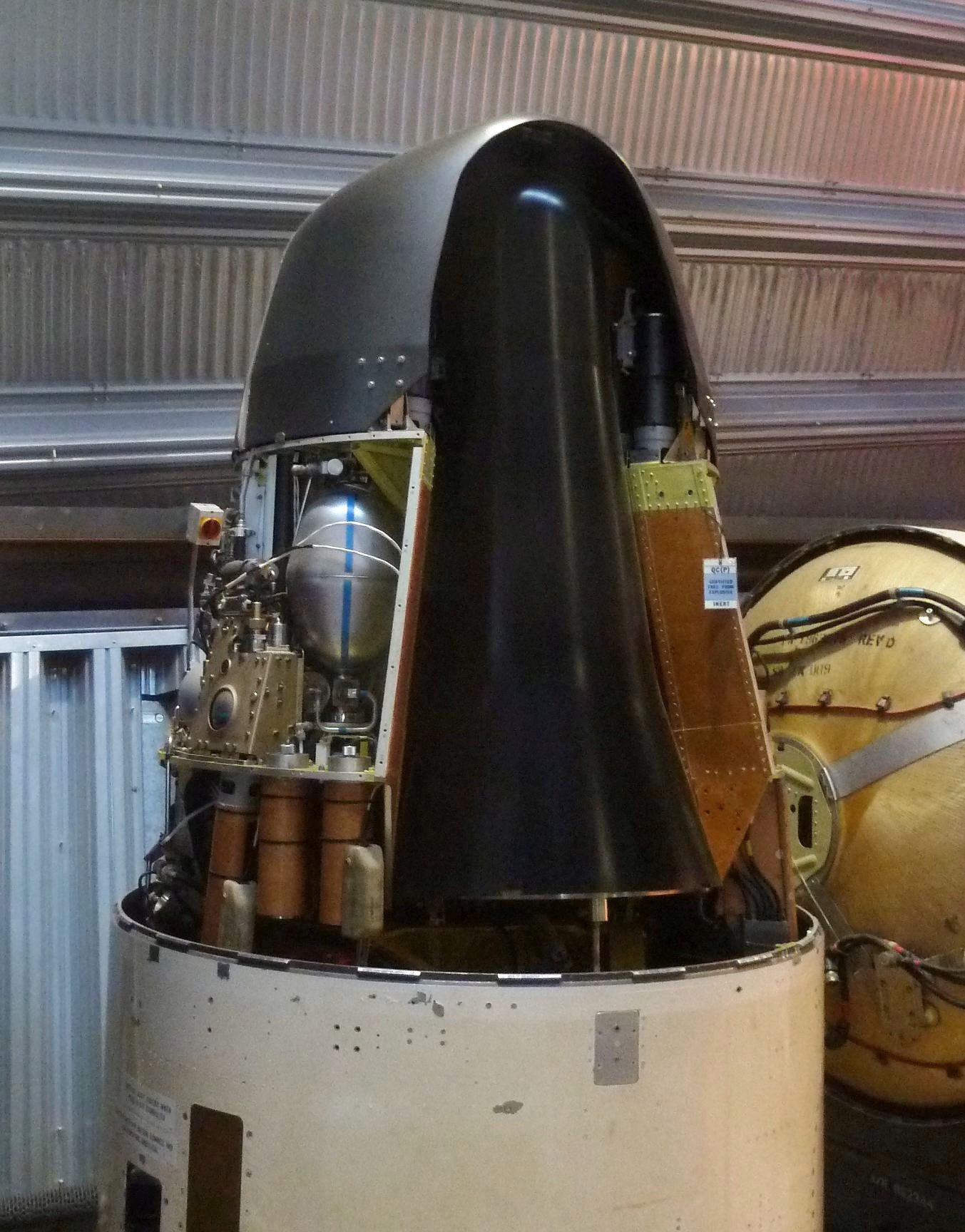 Chevaline bus and re-entry bodies